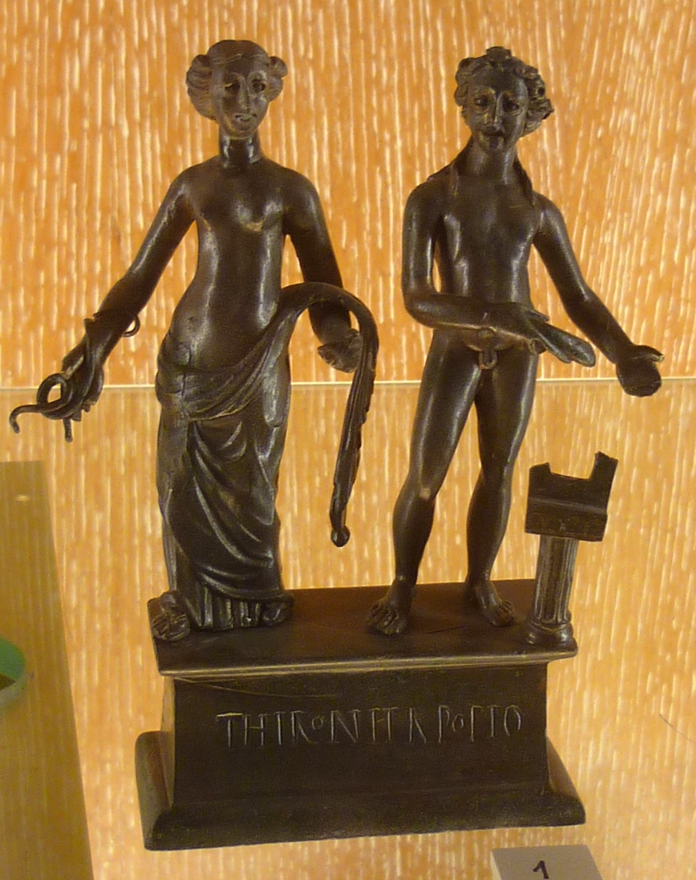 Deities couple : Sirona and Apollo, bronze Gallo-roman statue from Mâlain Dijon archeological museum, France